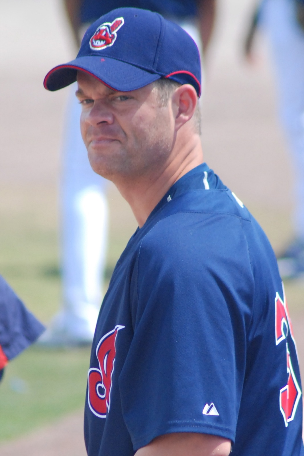 Paul Byrd at 2007 spring training in FloridaMLB Spring Training - Cleveland Indians vs Toronto Blue Jays